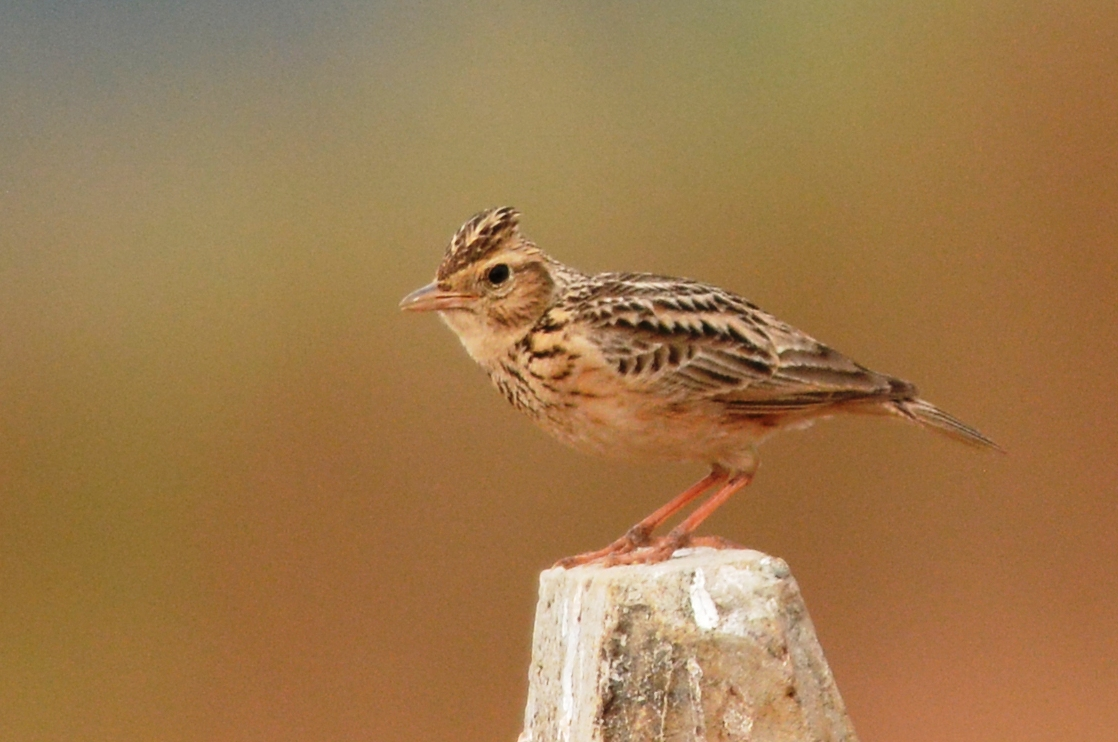 Oriental Skylark Alauda gulgula by Vedant Kasambe in Dombivli,dist.Thane, Maharashtra, India